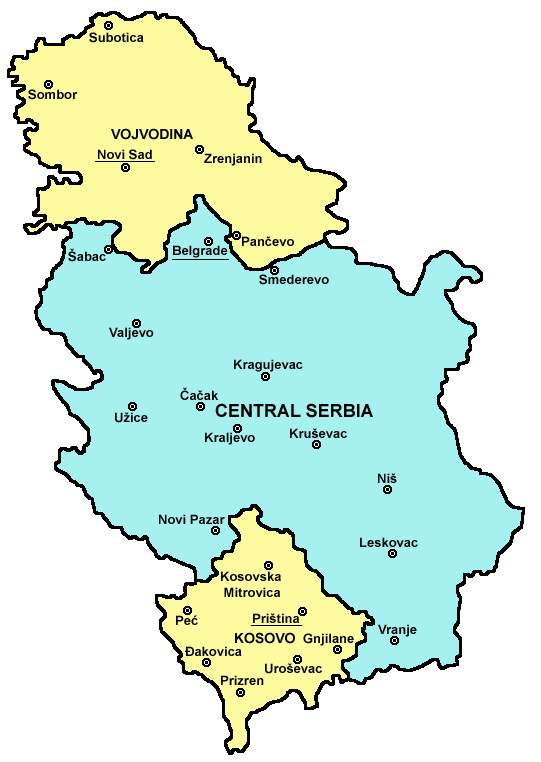 map of administrative divisions in Serbia from 1959 (when Leposavić municipality was excluded from Central Serbia and included into Kosovo) to 2008 (when Kosovo declared independence) and also, by the view of Serbian government and part of international community, from 2008 to 2009 (when Serbian authorities adopted a law that formed 5 new statistical regions in the territory formerly known as Central Serbia).